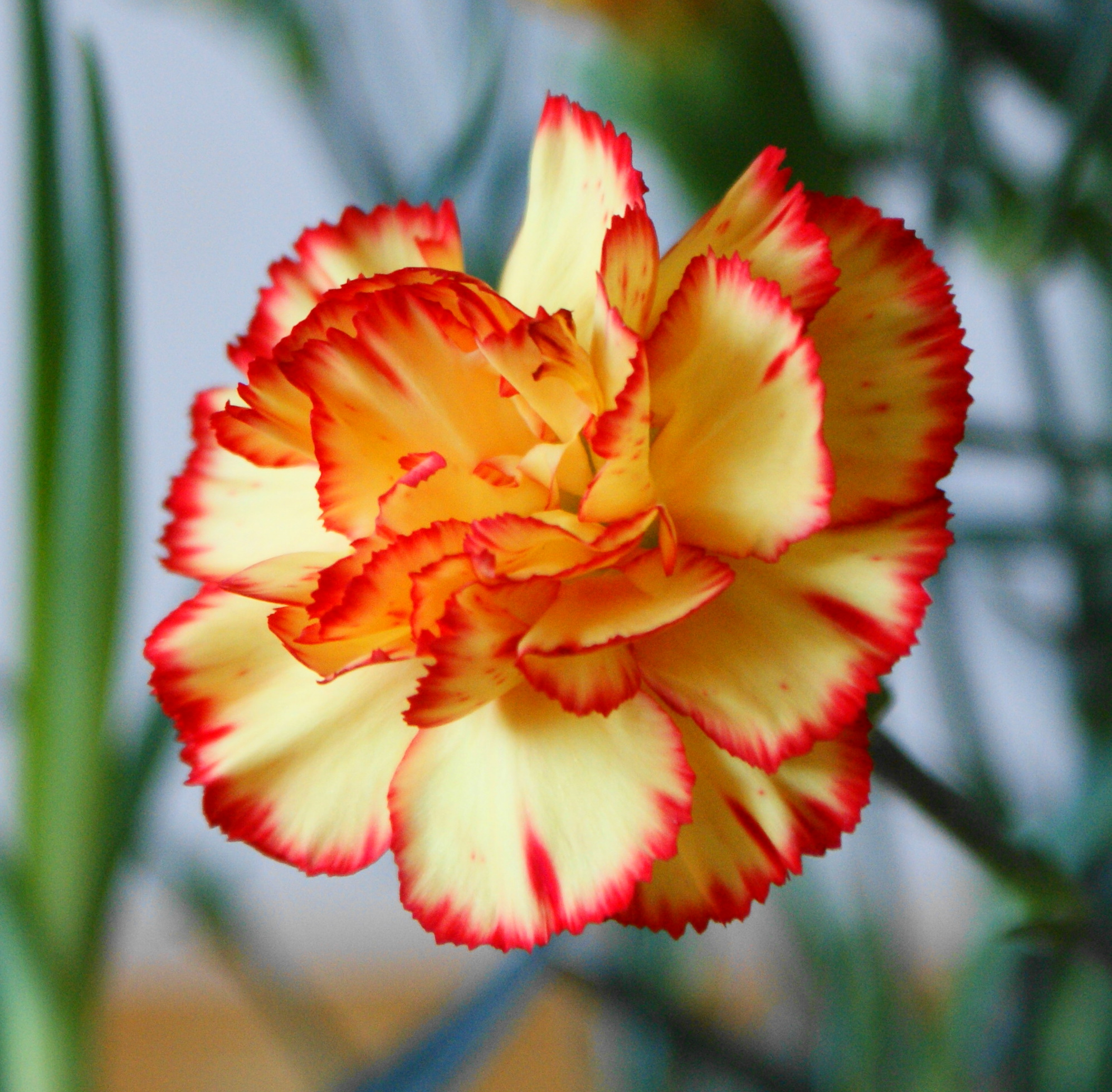 Dianthus, cultivar